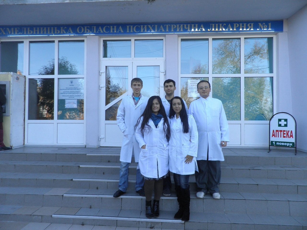 Khmelnitskiy regional psychiatric hospital №1: interns in 2012—2014